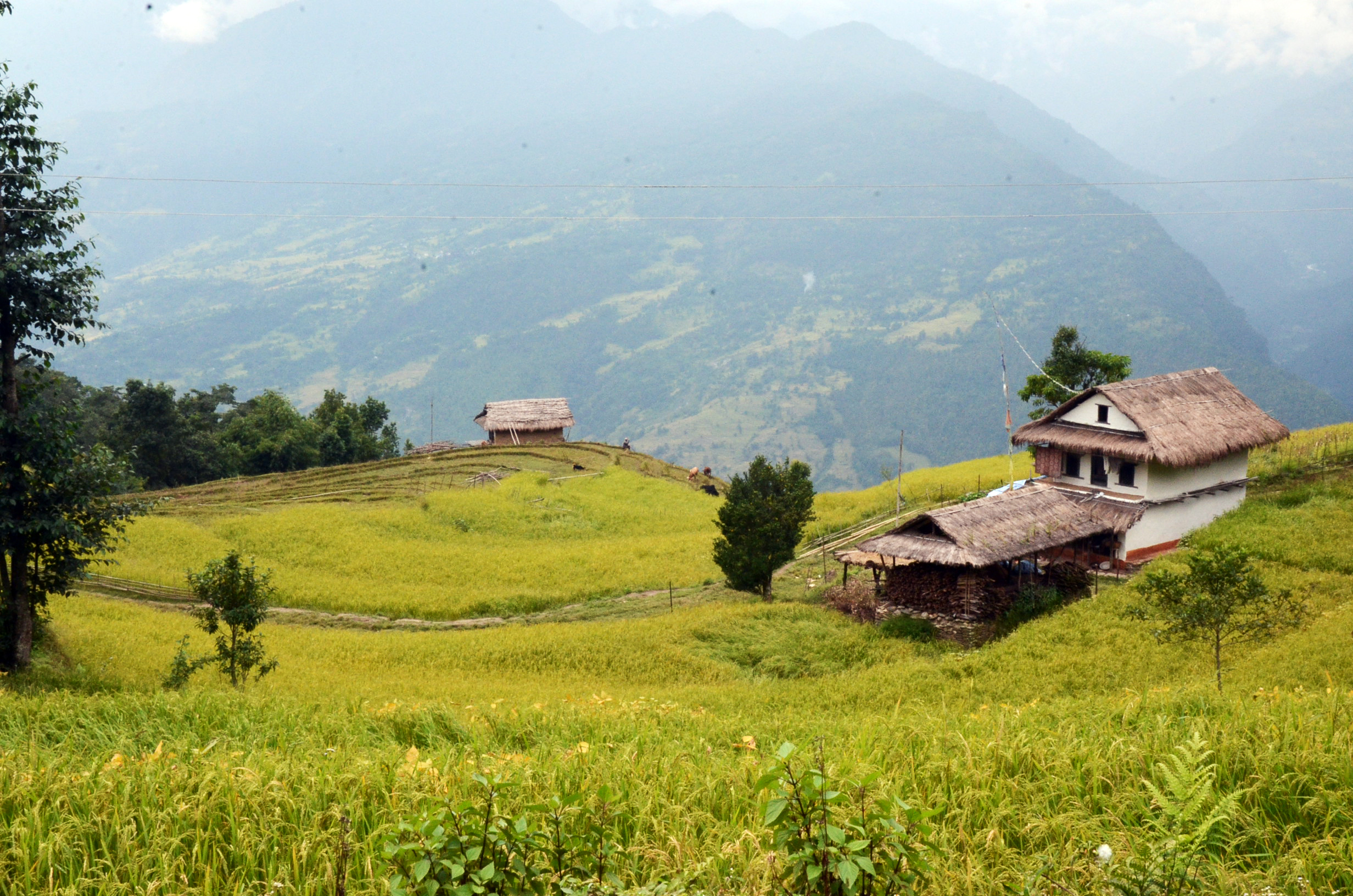 This is Lama village of Sitalpati VDC, Nepal